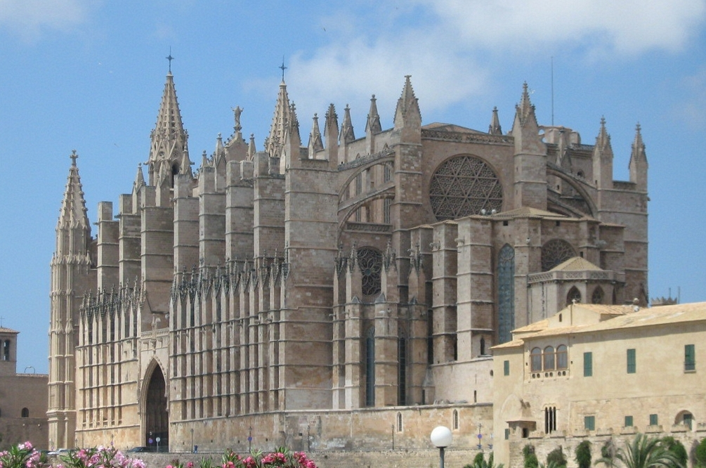 Palma, Mallorca, Balearic Islands, Spain: palma cathedral of the holy maria; called "La Seu"